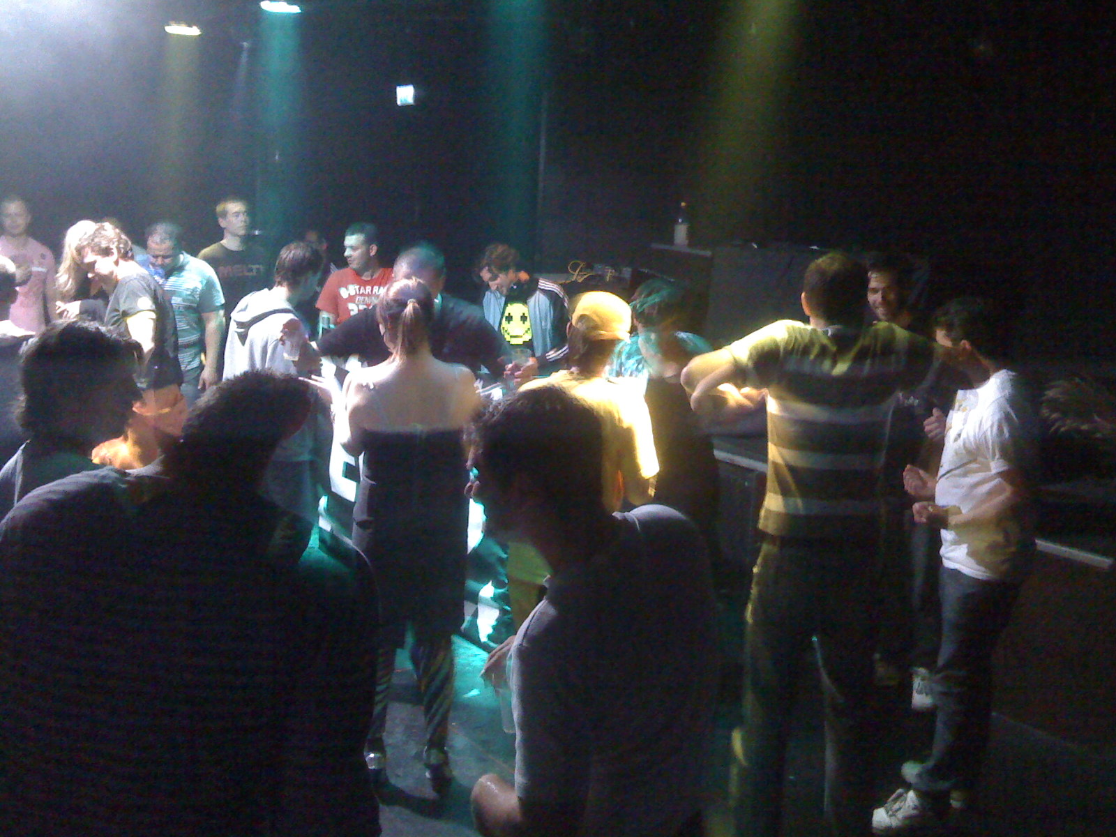 EKKO's dance floor, Utrecht (city), NL